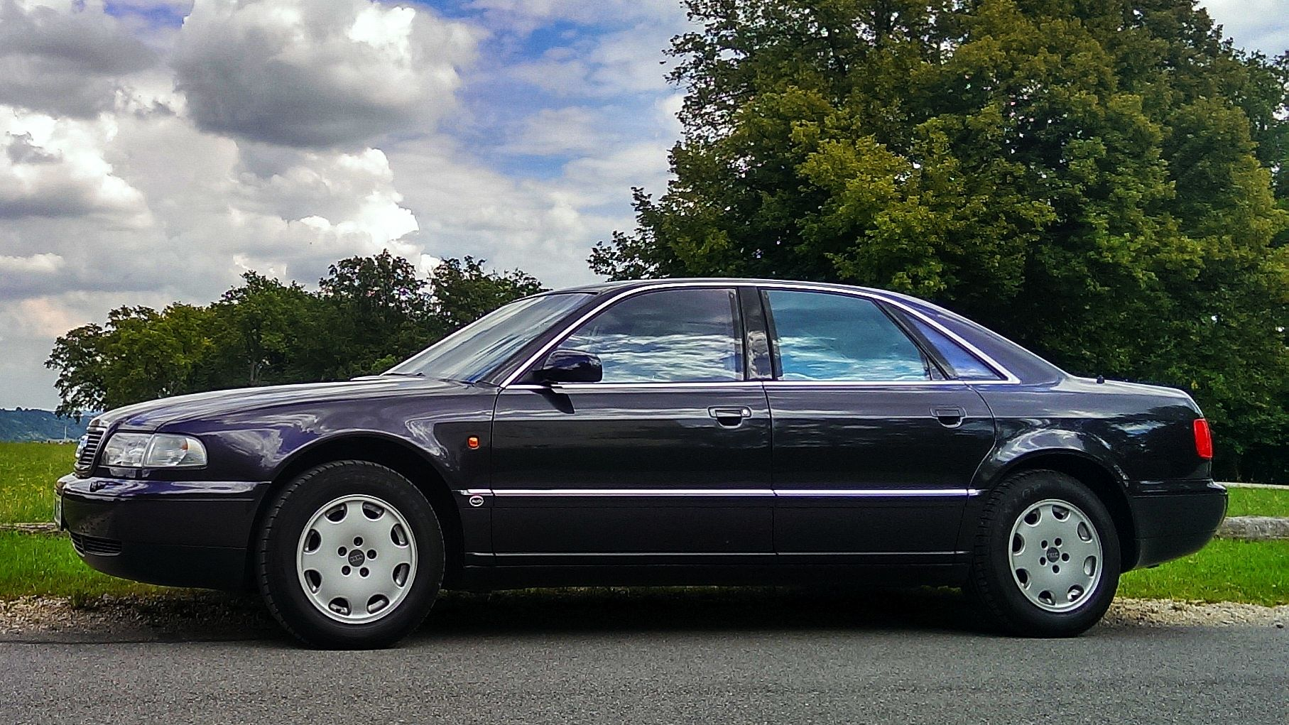 Audi A8 / D2, built 1995, model 1994-1999